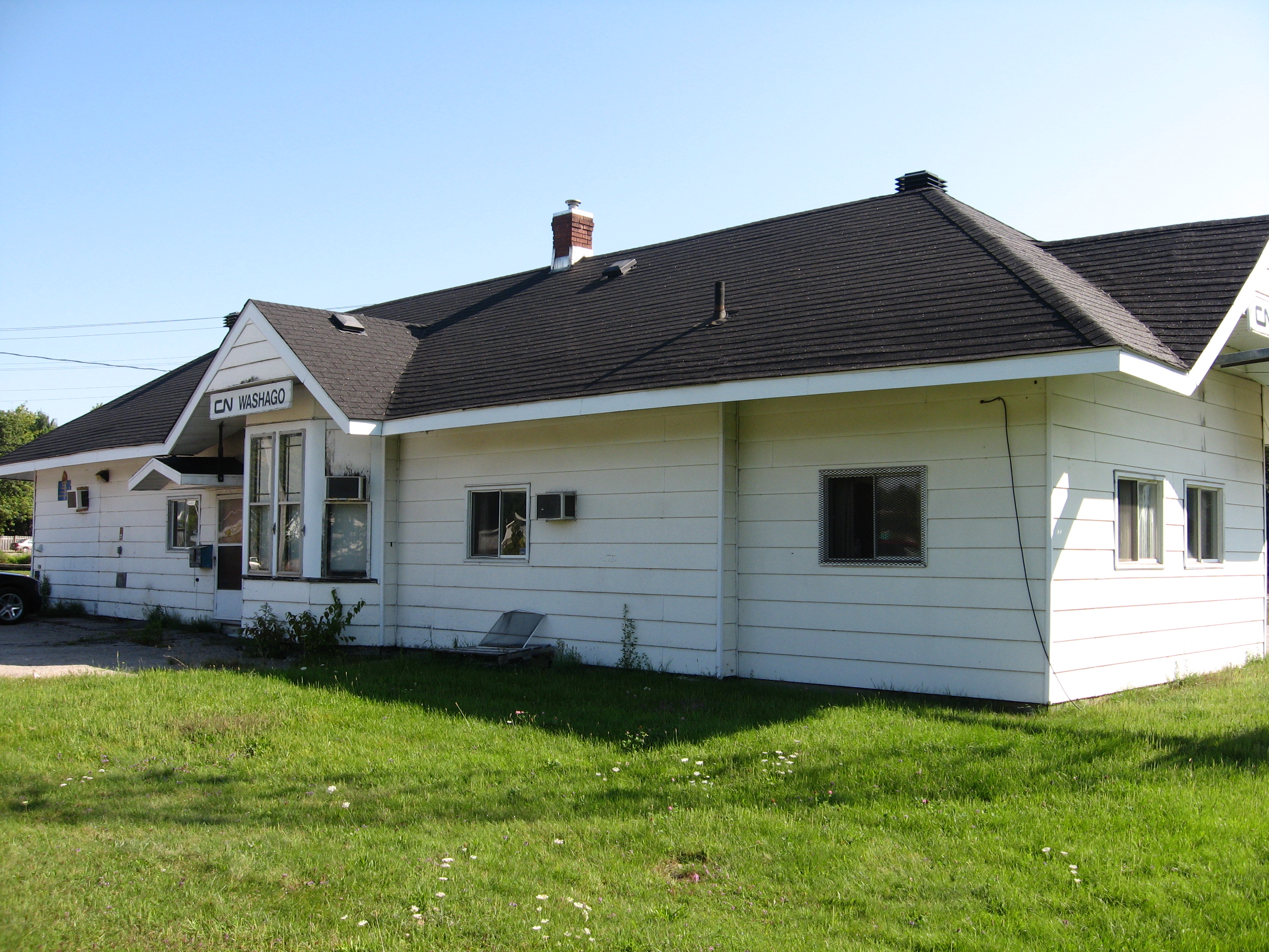 Washago Railway Station in Washago, Ontario, Canada